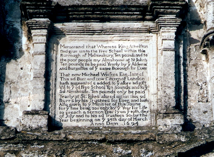 Tablet on wall of almshouses in Malmesbury, Wiltshire, describing bequest